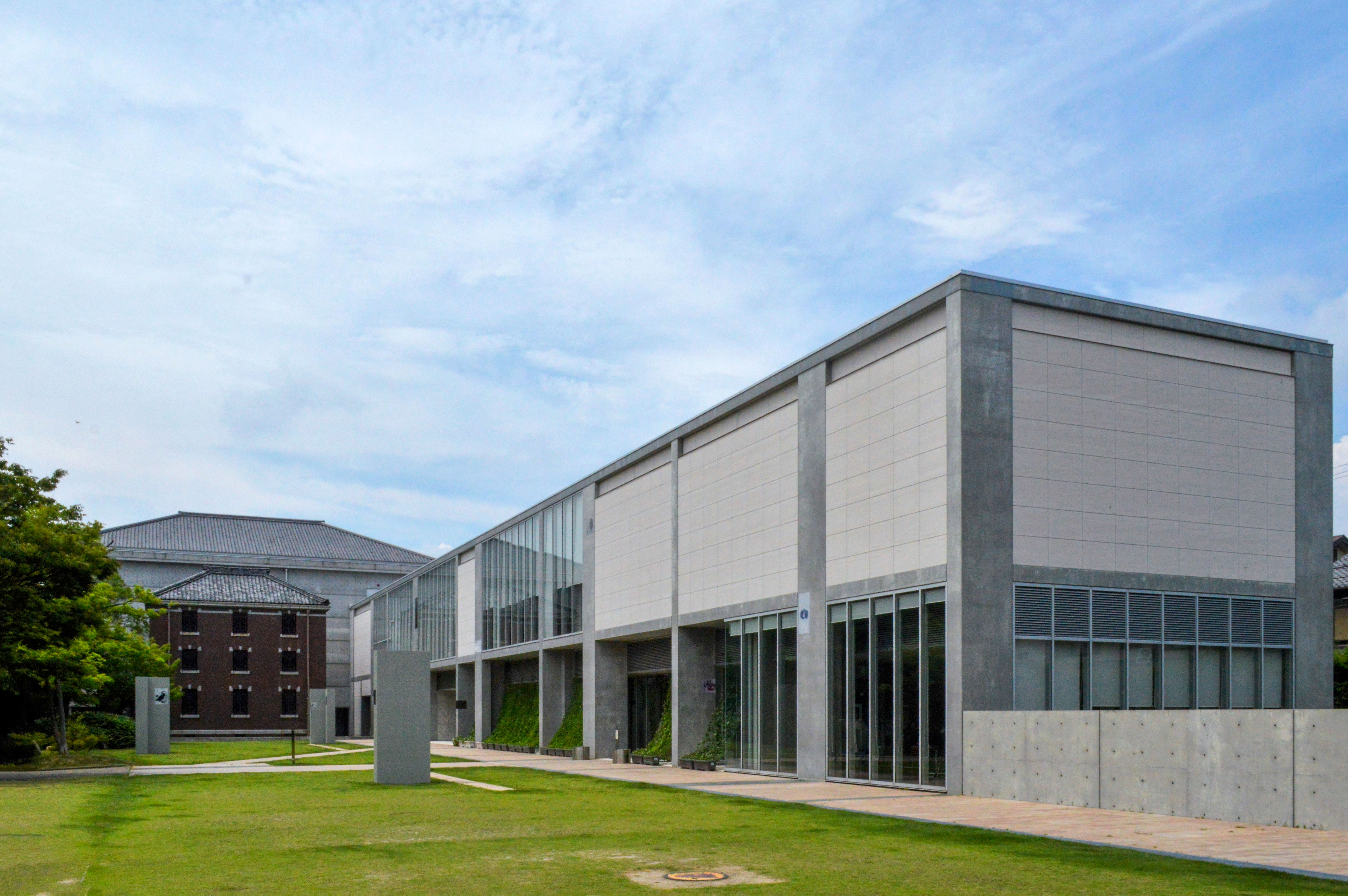 Iwase Bunko Library in Aichi Prefecture, Japan